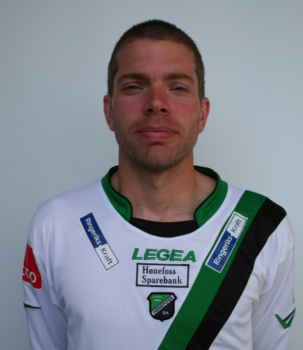 Helge Haugen, norsk fotballspiller som spiller for Hønefoss Ballklubb.